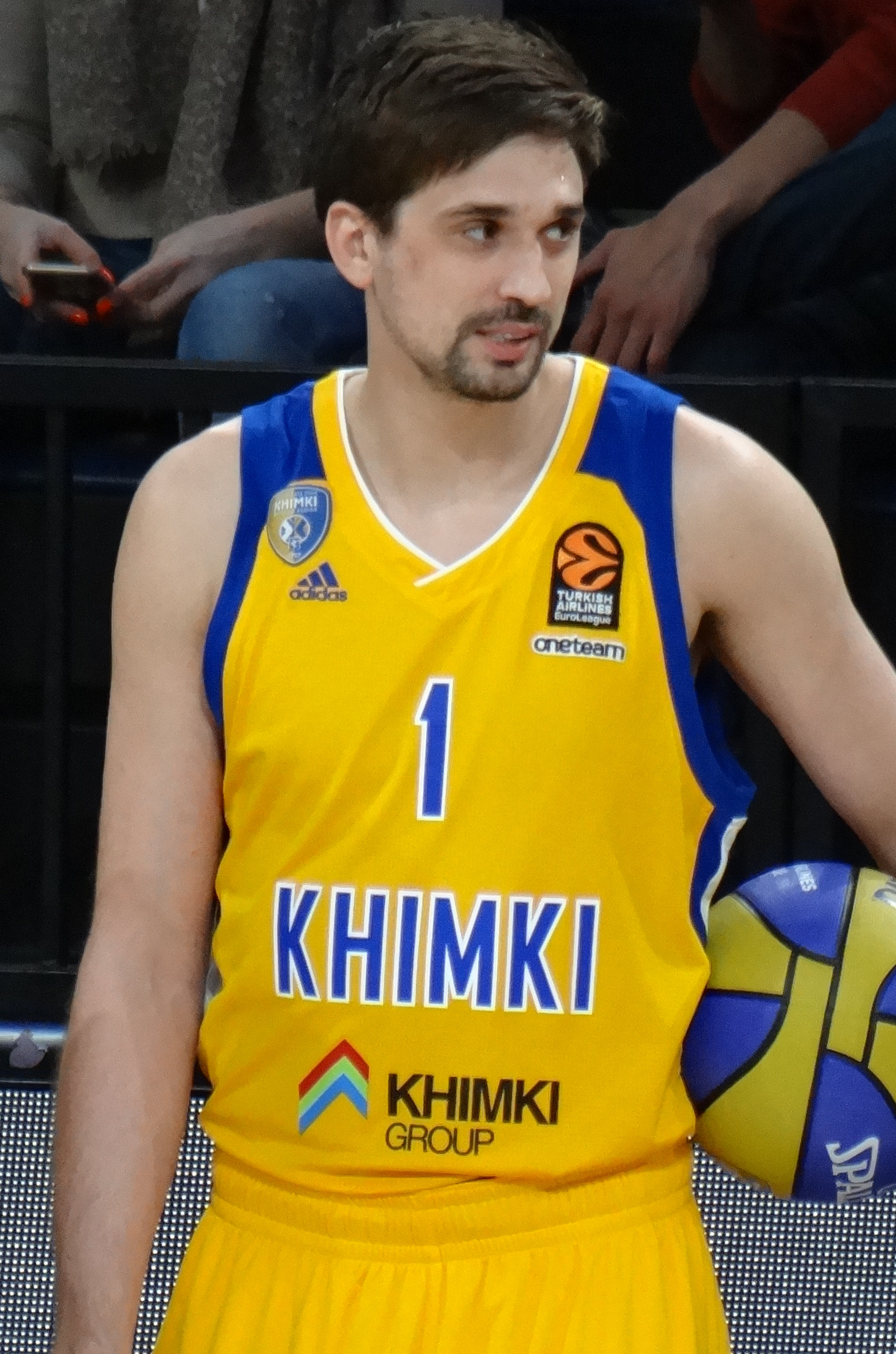 Alexey Shved 1 BC Khimki EuroLeague 20180321